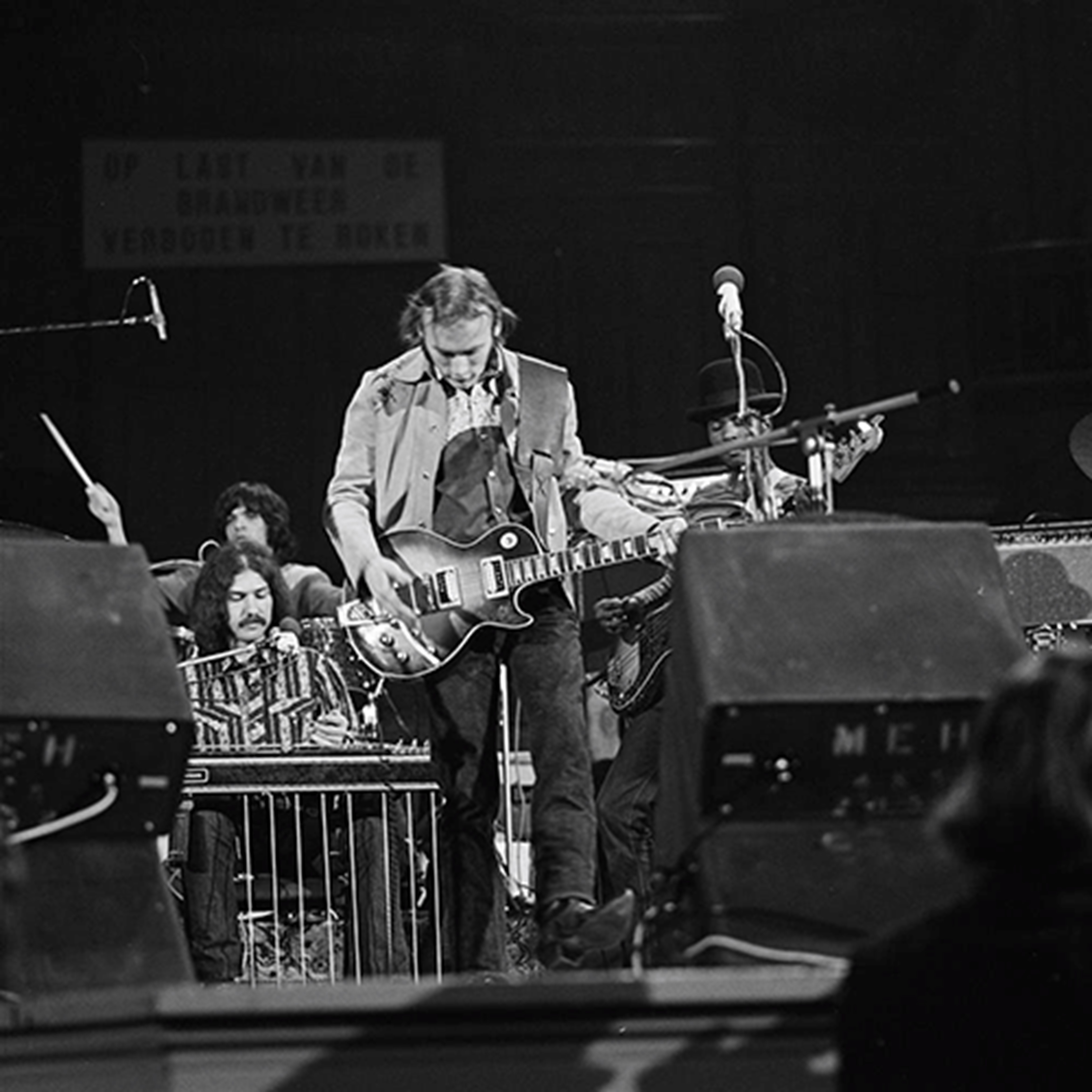 Manassas, Dutch TV programme Toppop, Recordings 22 March 1972, Broadcast 10 June 1972. Sign on the wall reads: ′′Op last van de brandweer verboden te roken-Orders of the fire dept.: no smoking′′